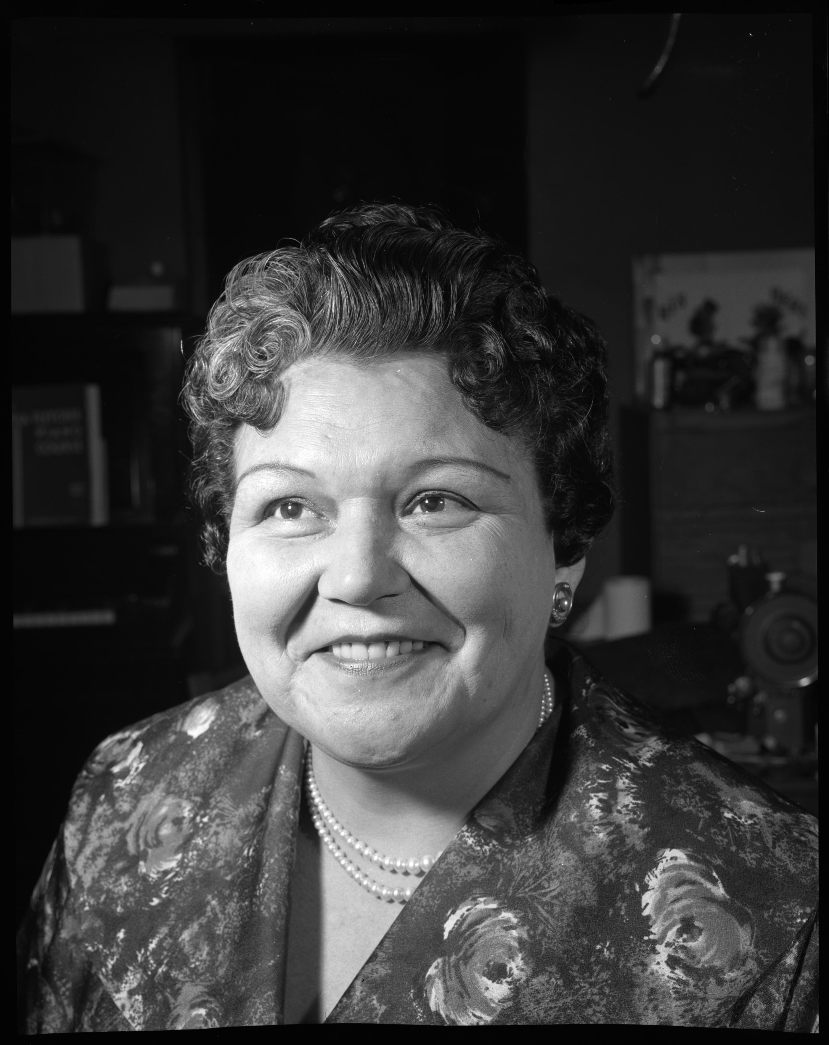 Musqueam Chief Gertrude Guerin VPL Accession Number: 44666 Date: January 6, 1961 Photographer/Studio: Province Newspaper Sedawie, Gordon F. Content: The new Chief of Musqueam Topic: Indians of North America - Kings and rulers Portrait Person: Guerin, Gertrude, 1917-1998 Location: British Columbia - Vancouver More information on our historical photograph collection